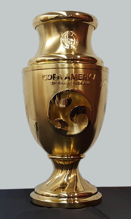 Adapted work from this image